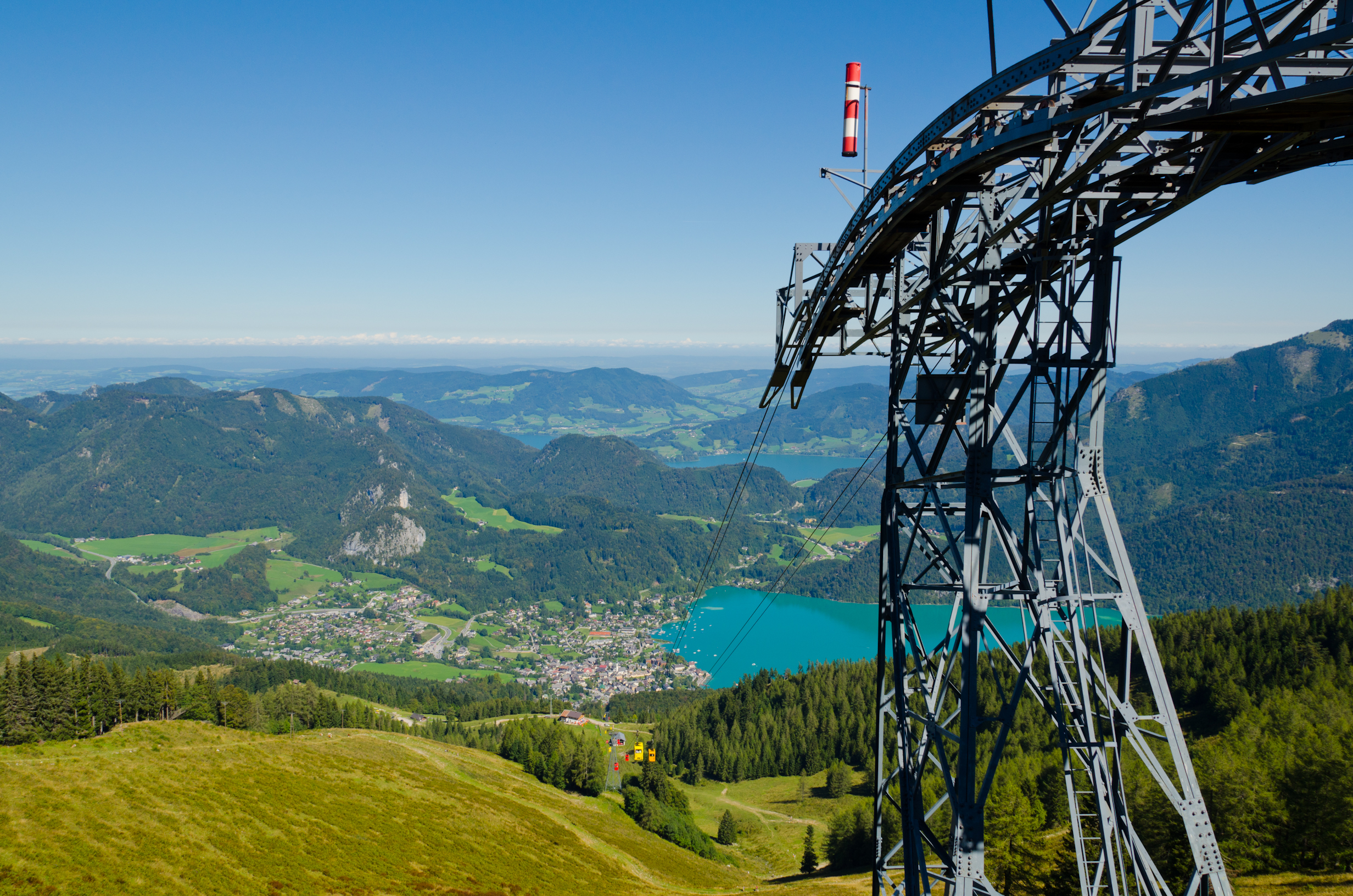 St. Gilgen as seen from the mountain Zwölferhorn